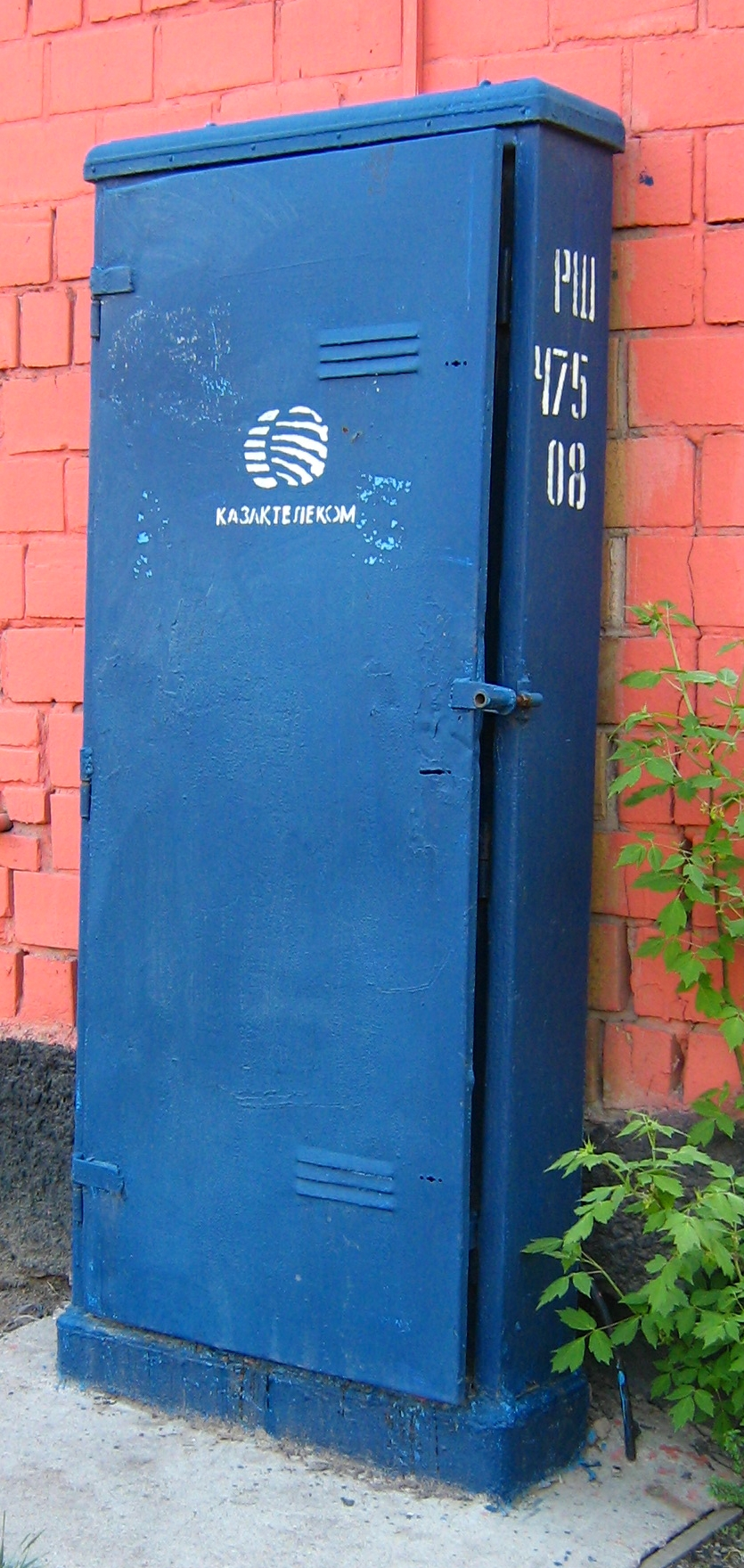 The telephone distribution box of Kazakhtelecom in Karaganda, Kazakhstan